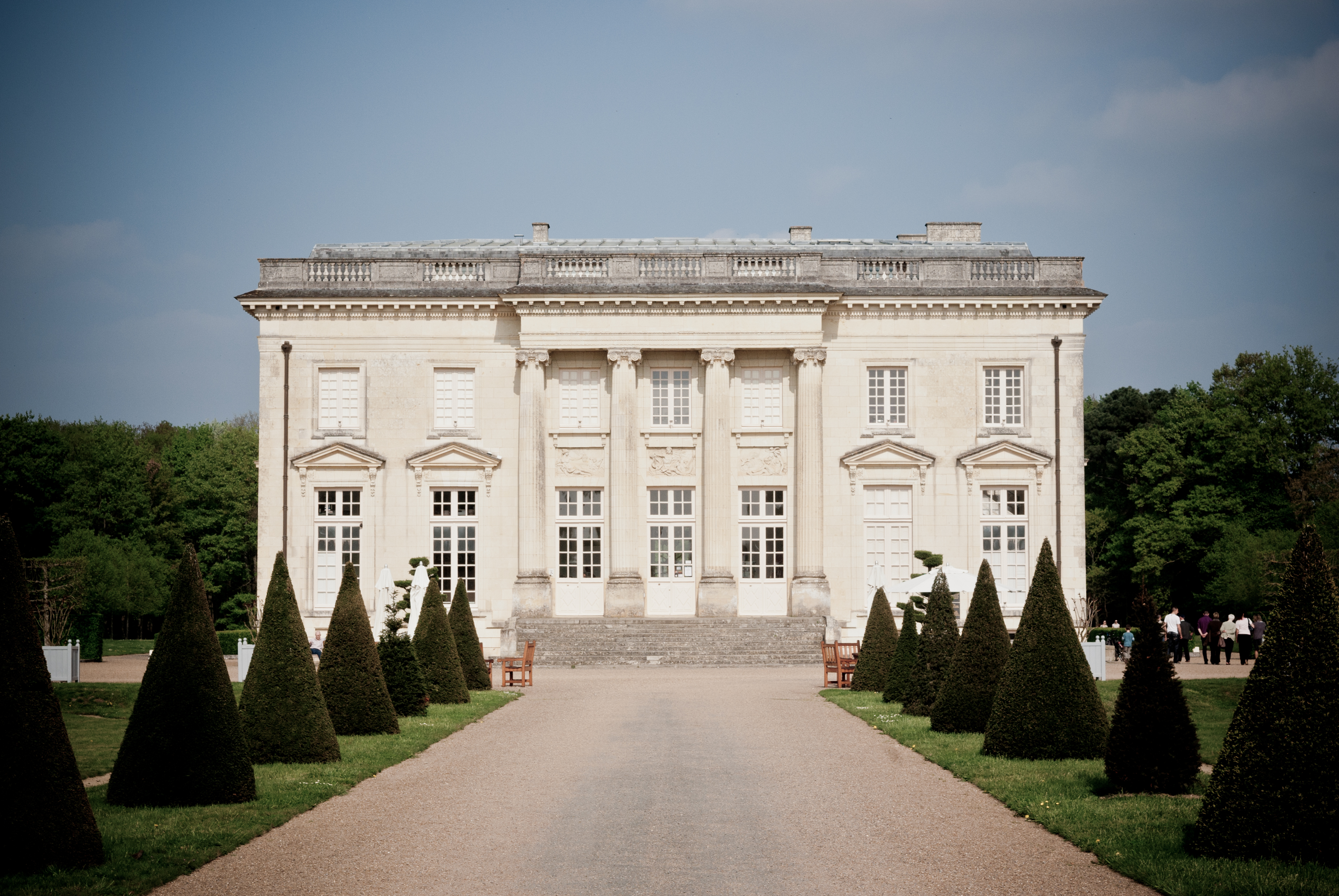 The castle of Pignerolle (Saint-Barthélémy-d'Anjou, France